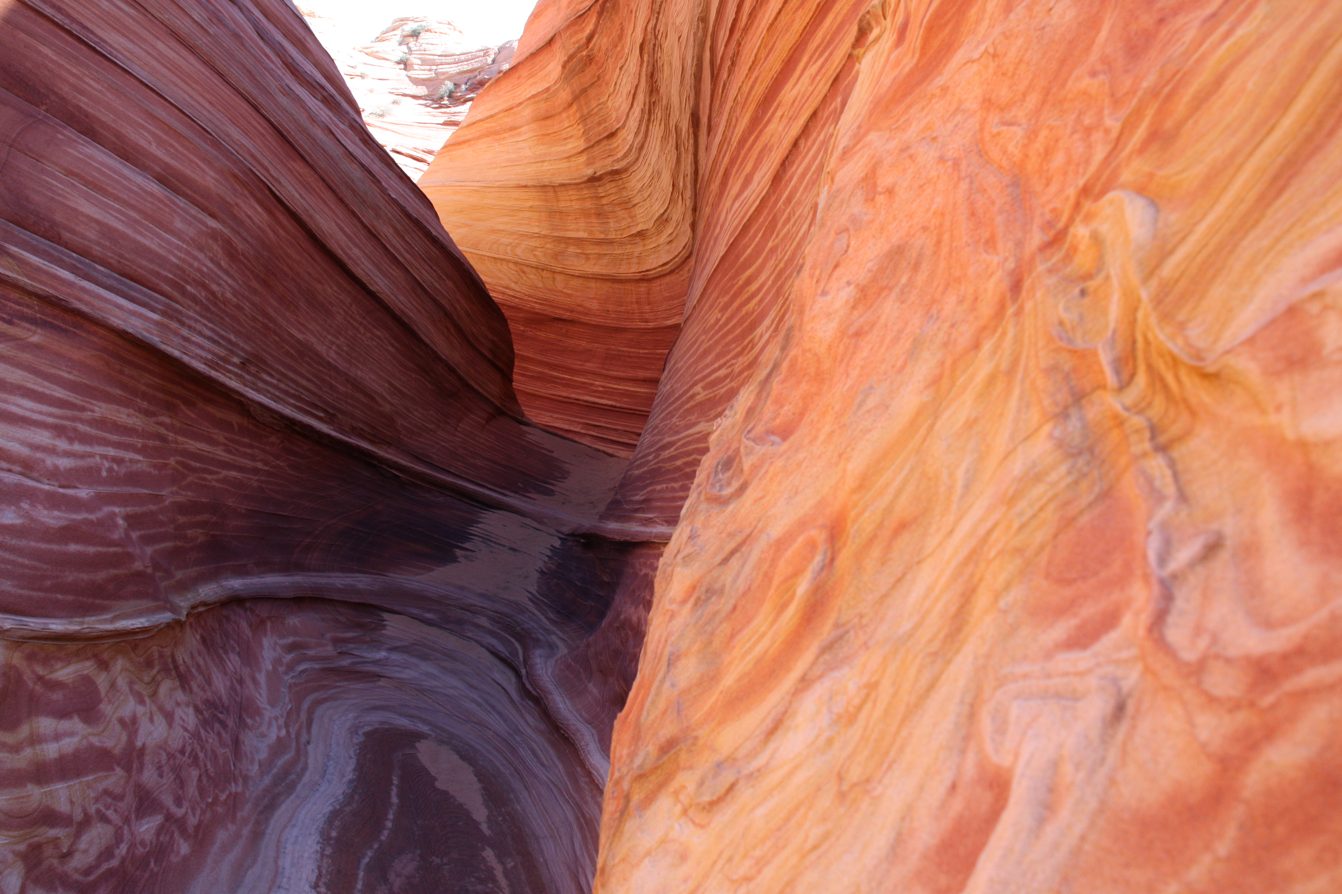 Vermillion Cliffs Wilderness, North Coyote Buttes, petrified Sand Dunes called The Wave